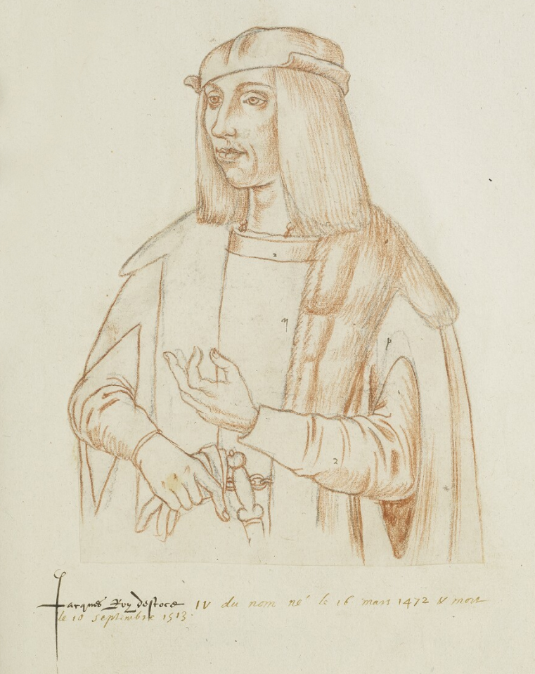 A posthumous sketch of King James IV of Scotland by the sixteenth-century Wallonian artist Jaques le Boucq